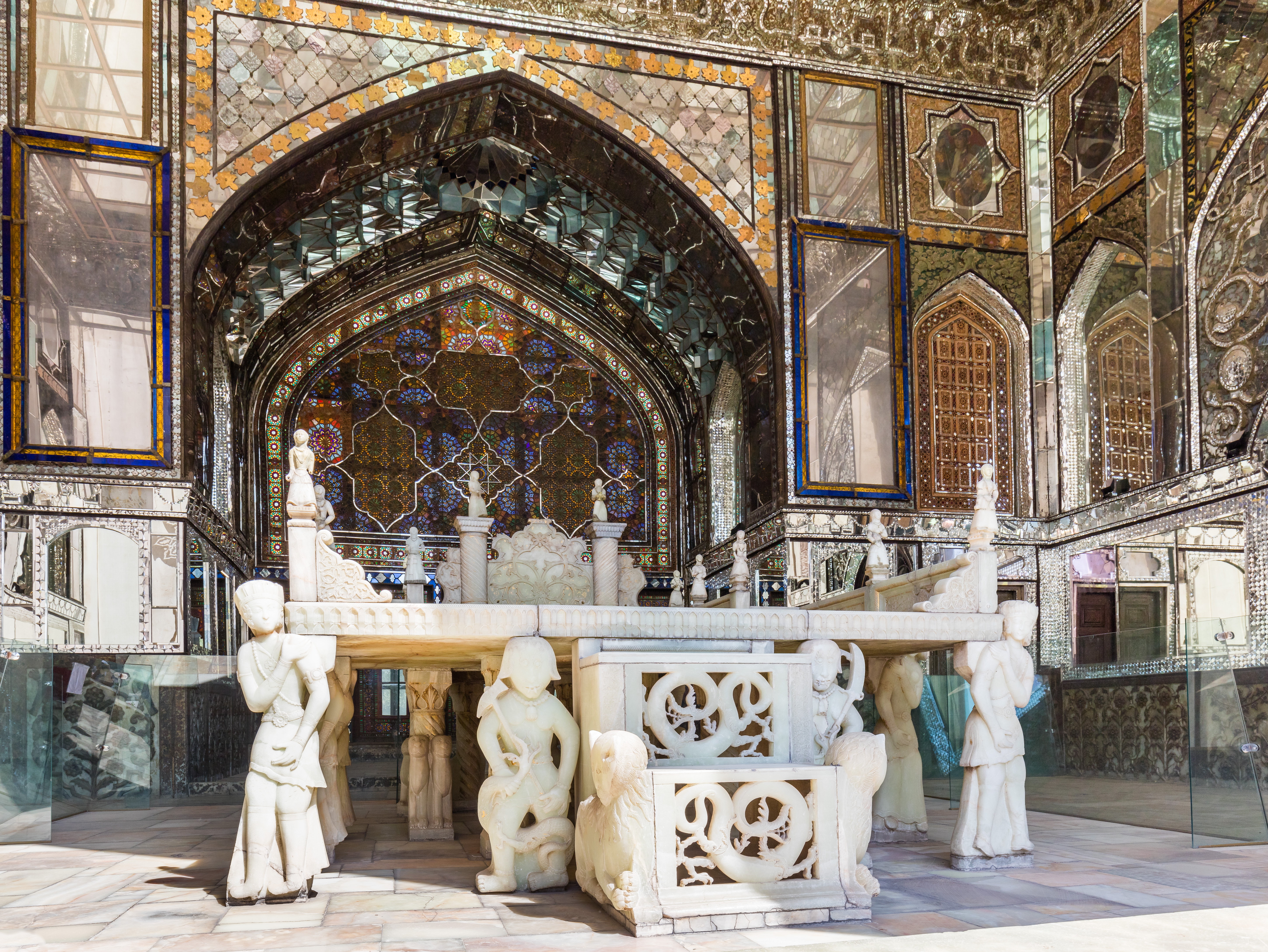 Golestan Palace, Tehran, Iran